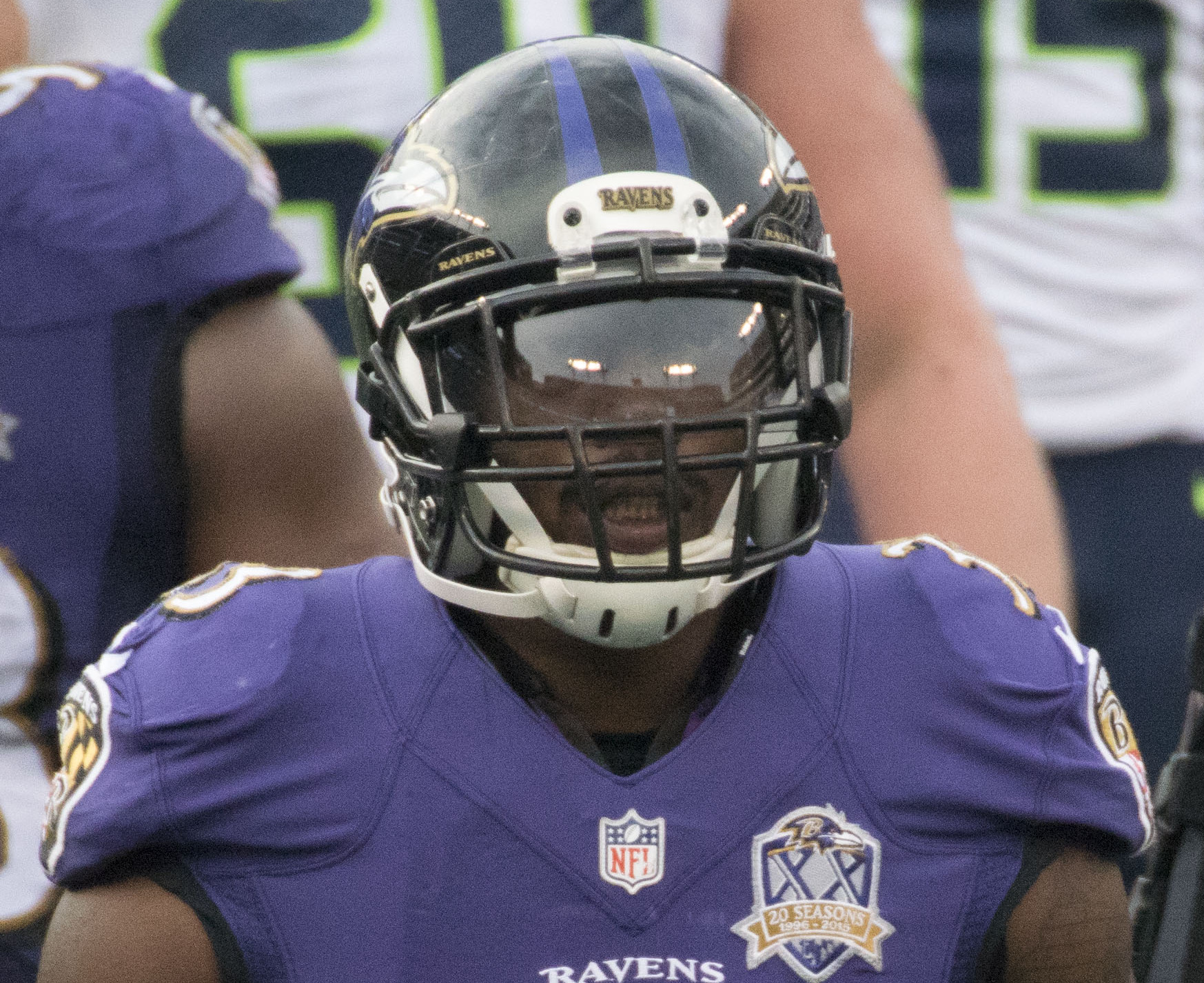 Baltimore Ravens safety, Will Hill, playing against the Seattle Seahawks on December 13, 2015.